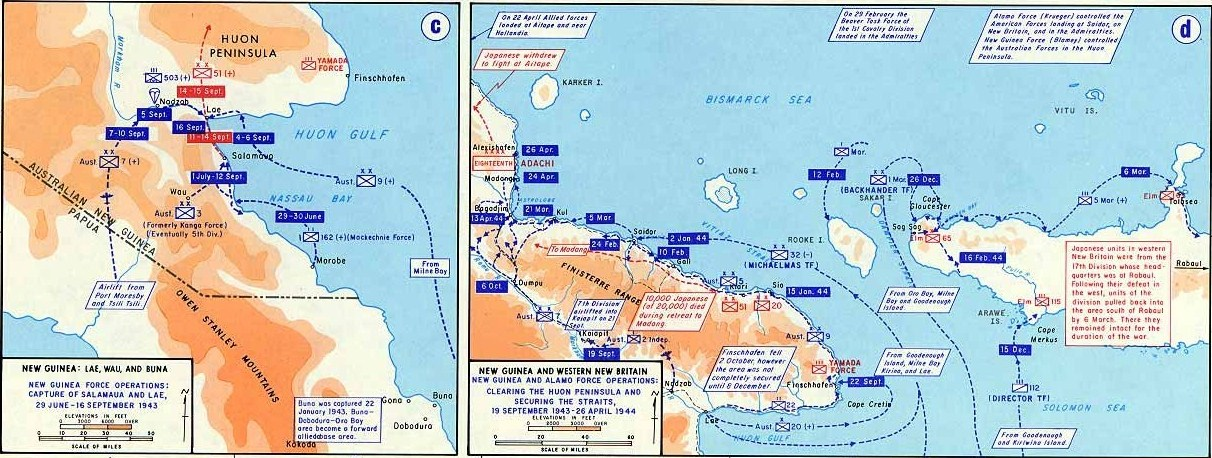 Australian operations in New Guinea during Operation Cartwheel